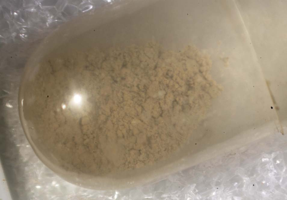 Yellow powder of the very rare mineral cerianite-(Ce) from Morro do Ferro, Caldas, Minas Gerais, Brazil. Analyzed specimen, where we can see that is a La, Nd rich cerianite-(Ce) impurified with K-Al silicates.